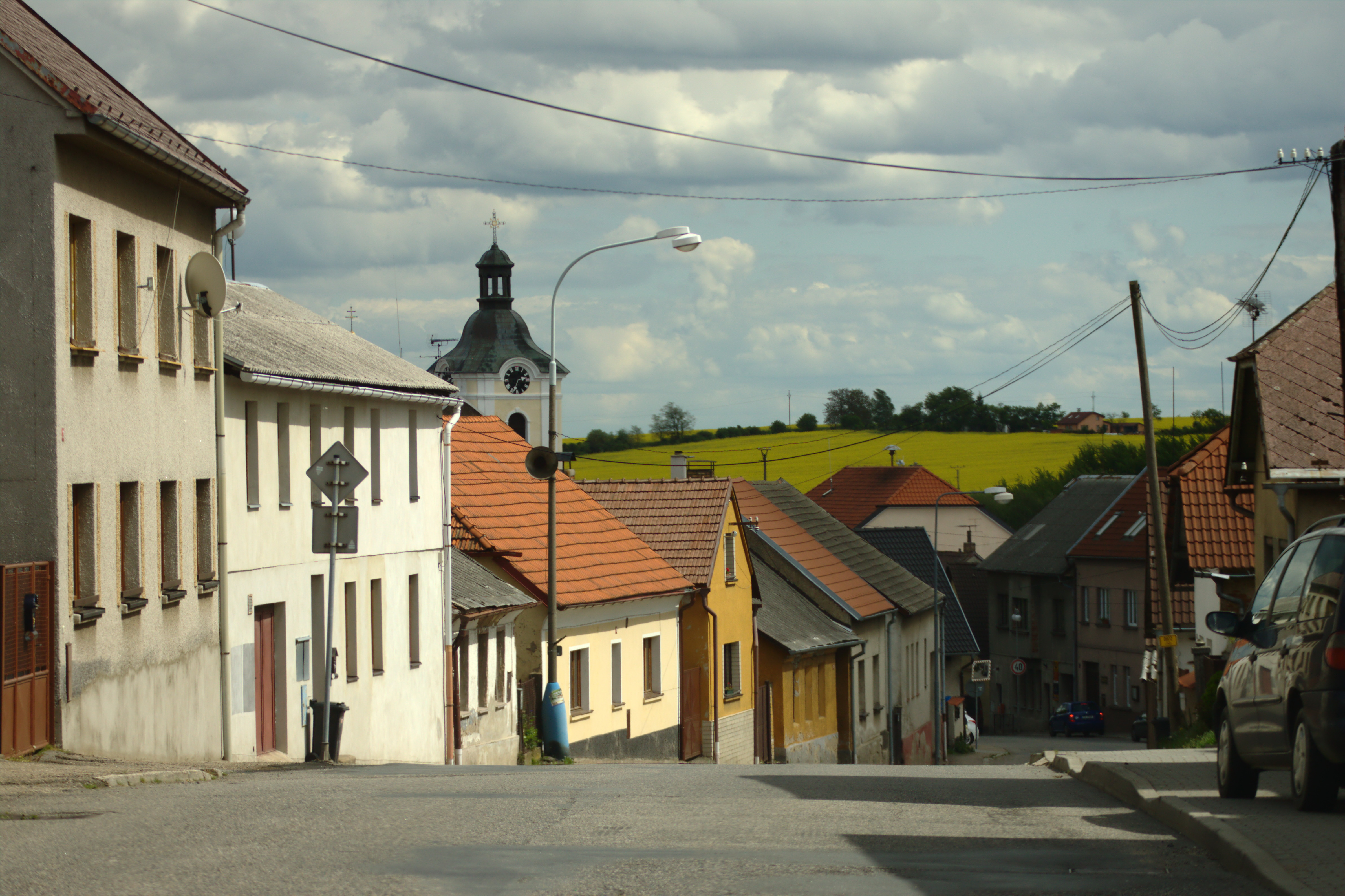 Main road in Divišov, Benešov District Project: Fotíme Česko